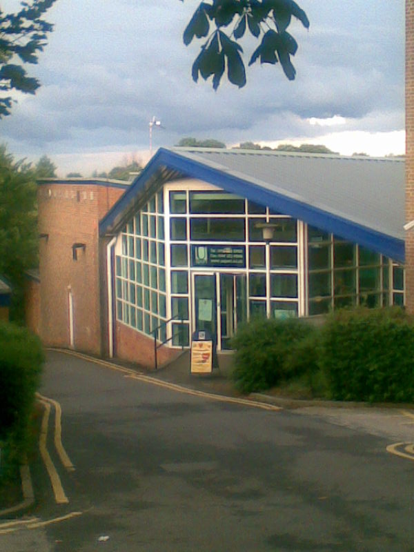 Photograph of Goodwin Sports Centre's main building at the University of Sheffield.